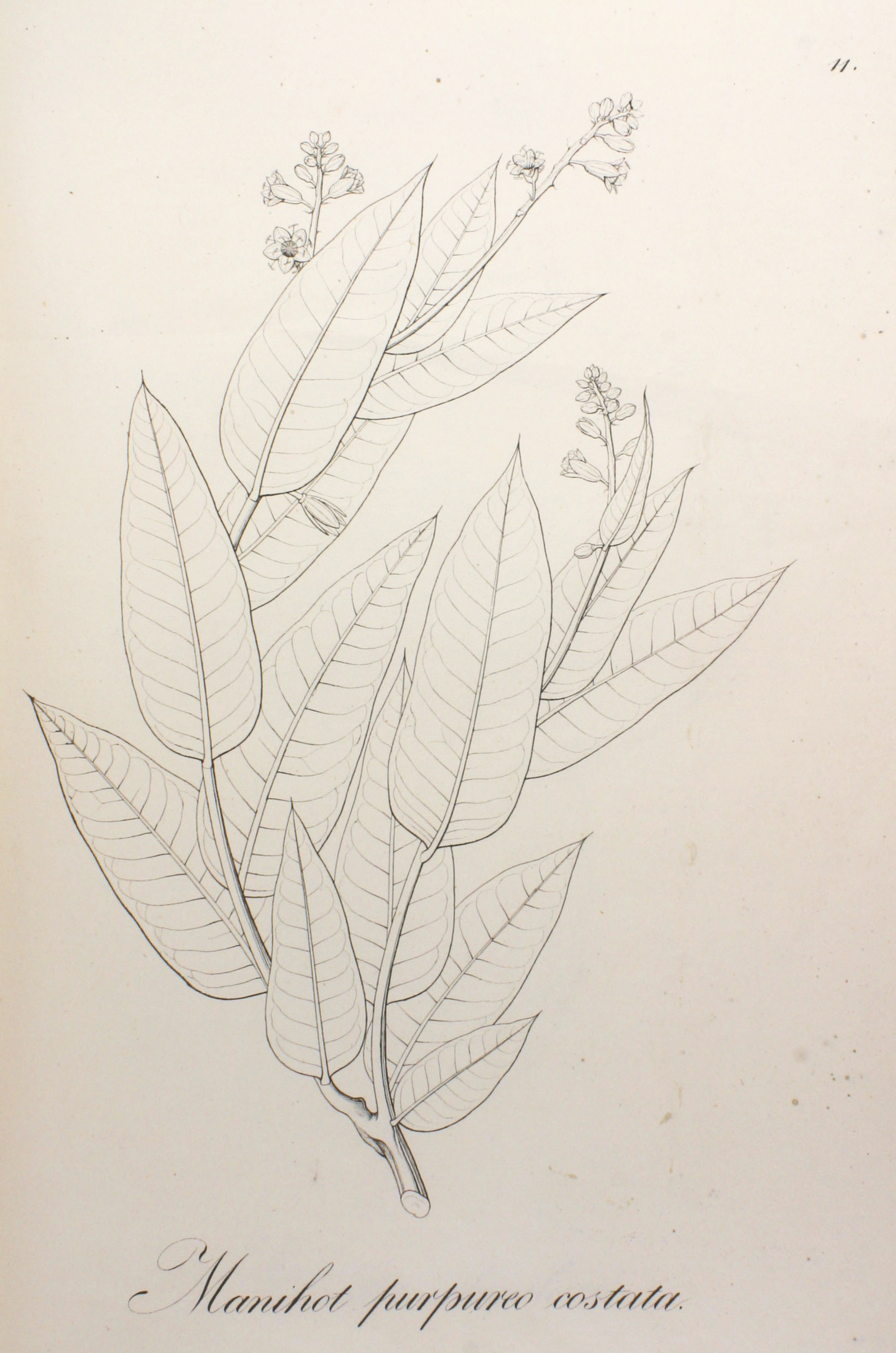 Manihot purpureocostata Plate from book